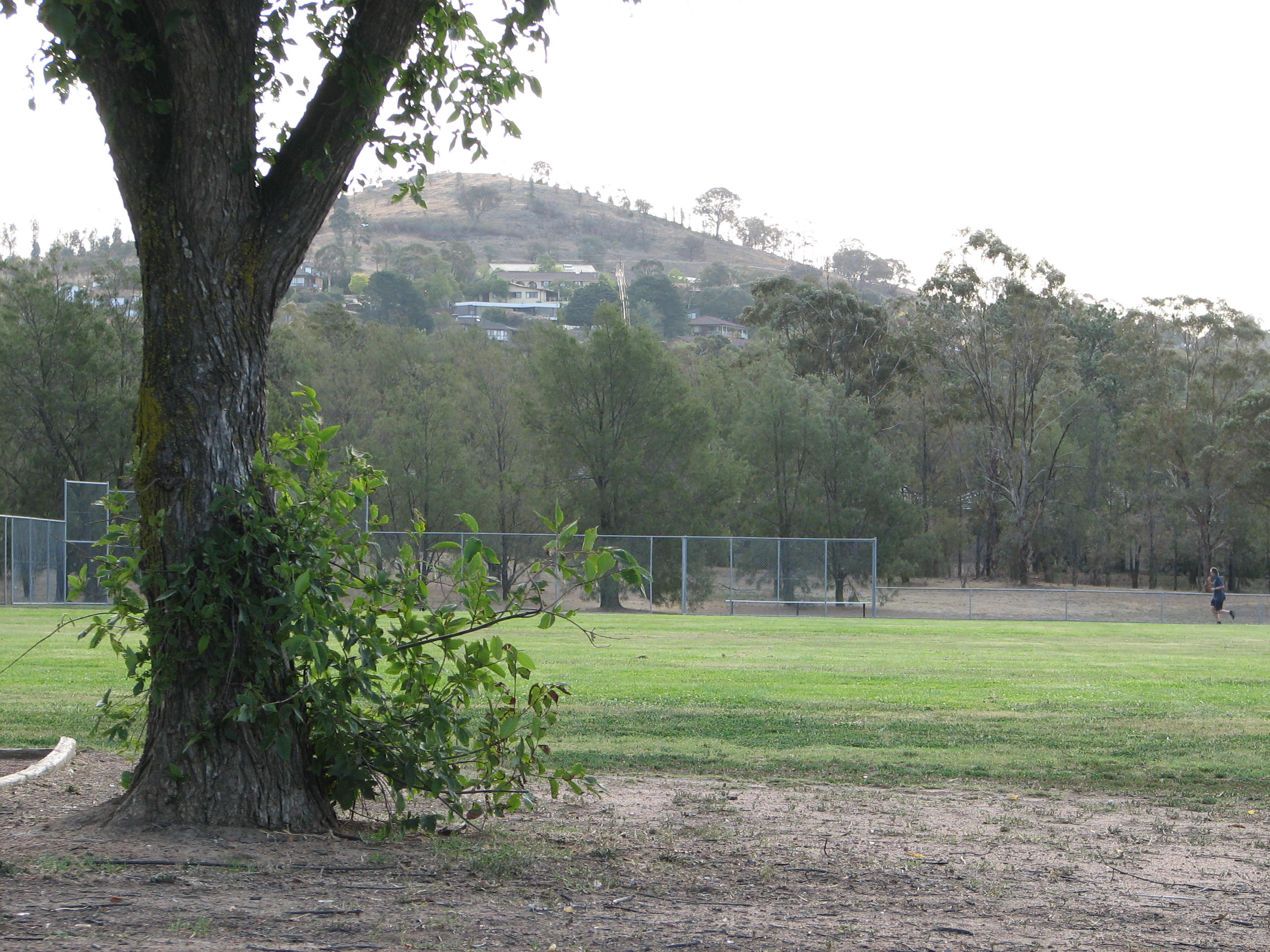 Local playing fields in Stirling, Australian Capital Territory. Taken by me on 14th January 2007.